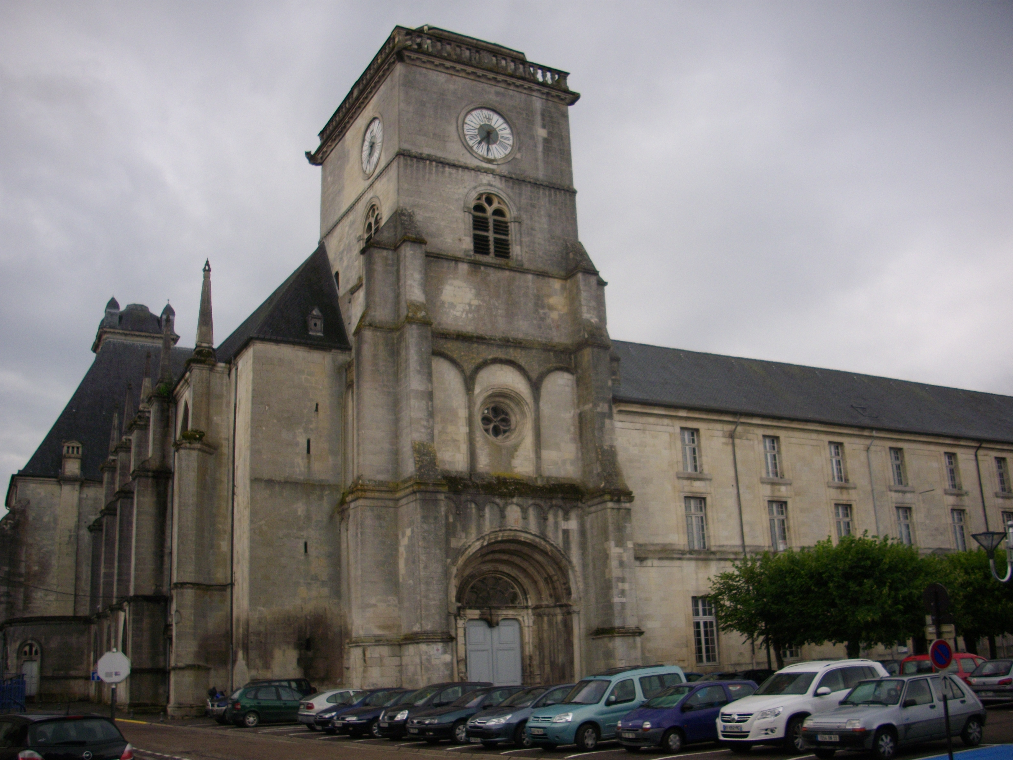 Saint Michael abbey church of Saint-Mihiel (Meuse, France) .